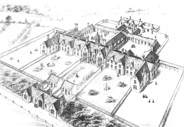 Architects line drawing from 1847 (published in 1848) for poorhouse in Aberdeen